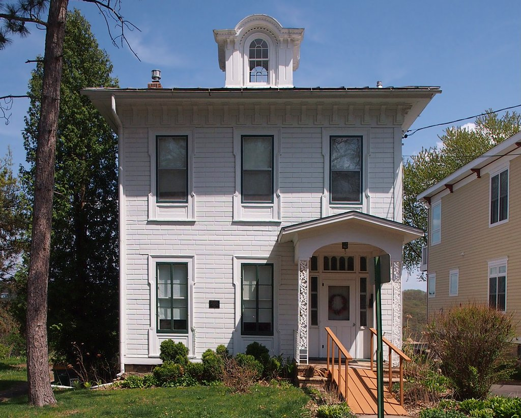 Mortimer Webster House, 435 S. Broadway St, Stillwater, Minnesota, USA. Viewed from the west-southwest.